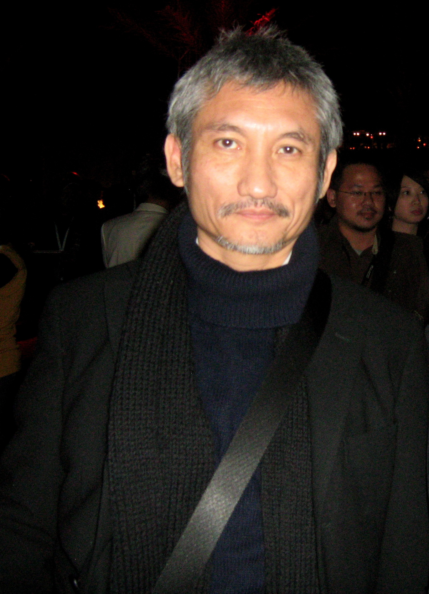 Tsui Hark at Dubai Film Fest 2008 Closing Ceremony